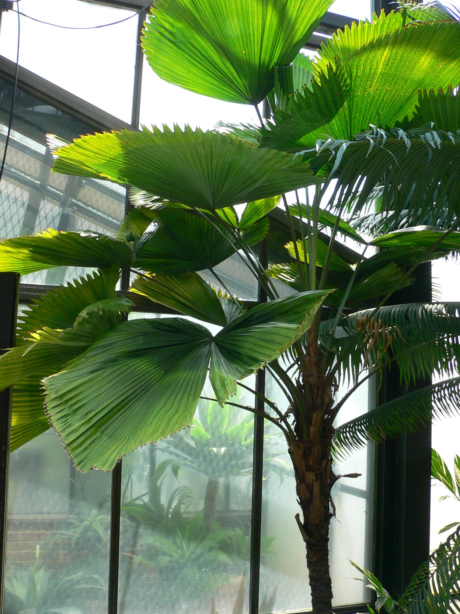 Pictures taken by myself at Longwood Gardens